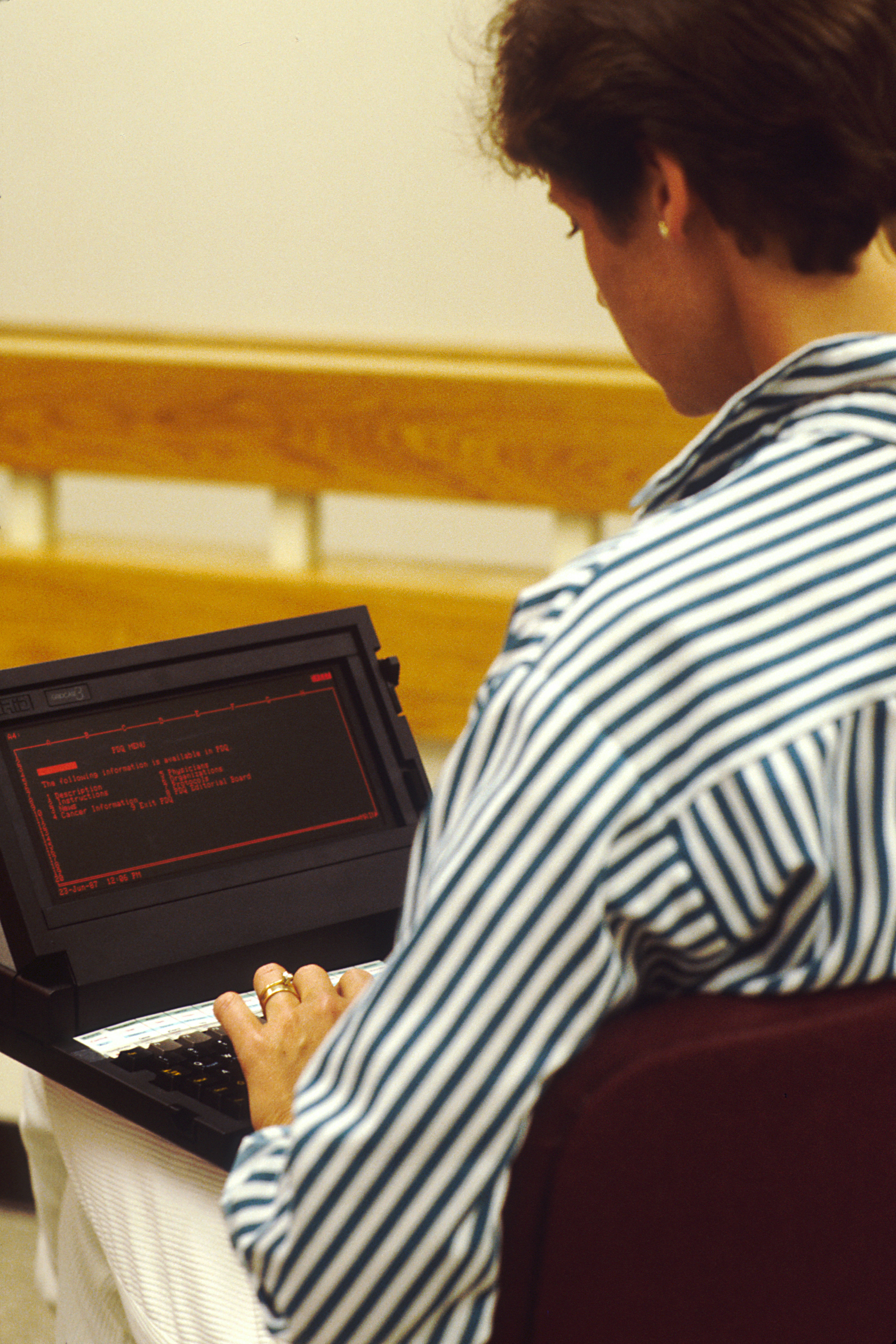 Title Woman Sitting with Grid Computer Description A woman is sitting with a "grid" portable computer in her lap working on PDQ database. The view is over her left shoulder. Topics/Categories People -- Health Professional Type Color, Photo Source National Cancer Institute